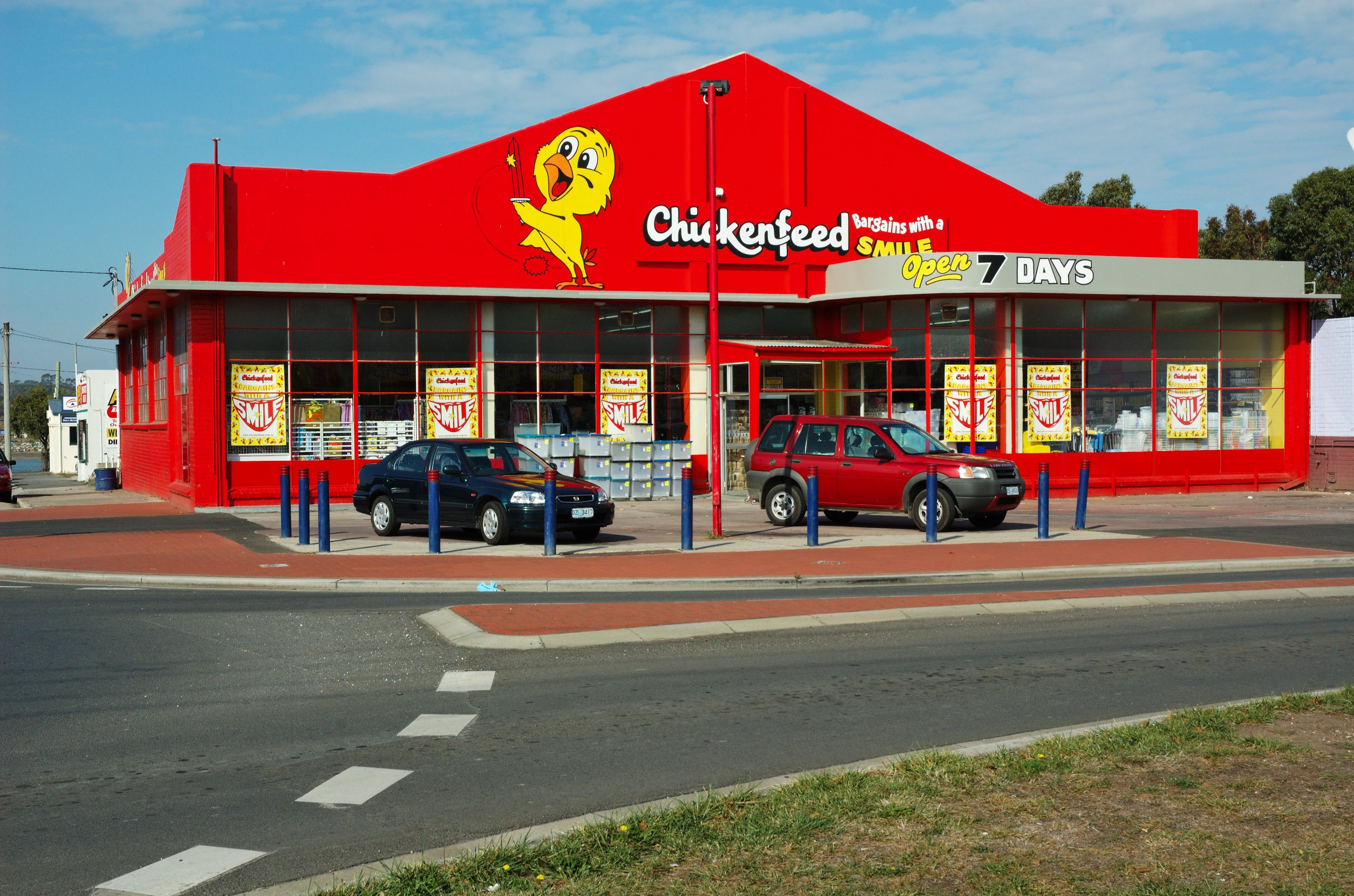 A Chickenfeed shop in George Town, Tasmania. Chickenfeed was chain of discount variety shops in Tasmania, now defunct.